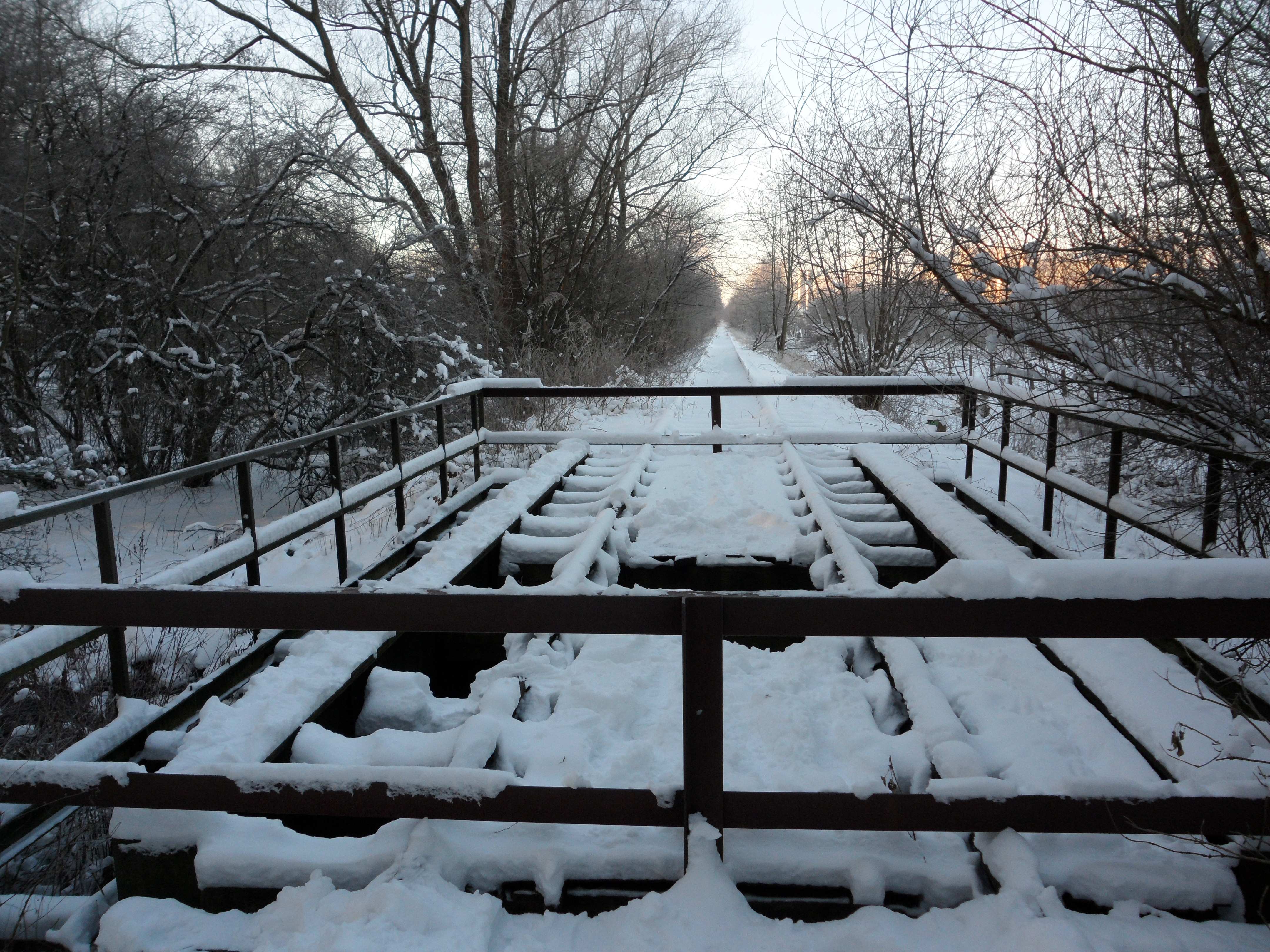 Closed bridge of the Bahnstrecke Neumünster–Ascheberg over river Dosenbek